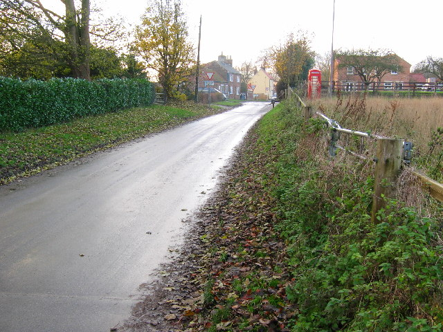 Tibthorpe, East Riding of Yorkshire, England.Looking west to Tibthorpe and the B1248 through the centre of the village